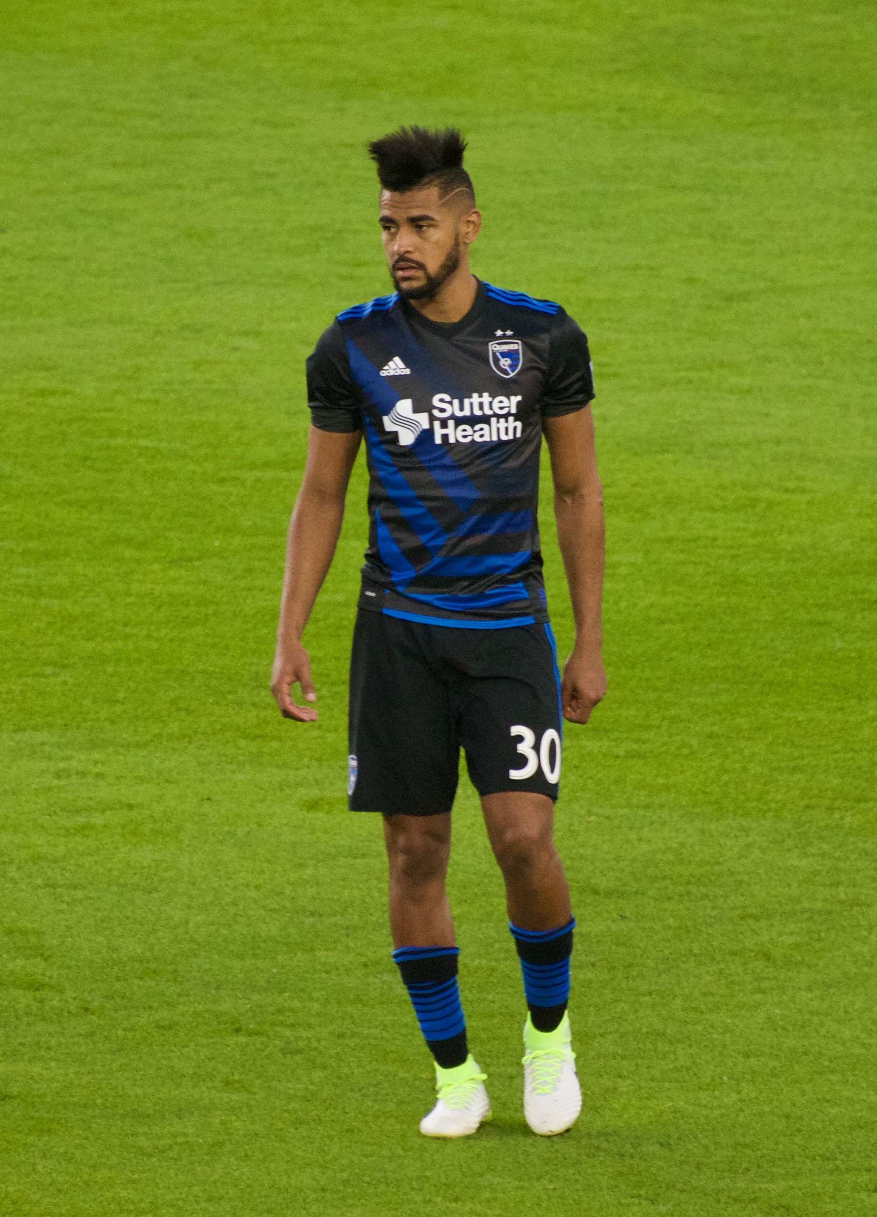 Anibal Godoy playing for San Jose Earthquakes at Avaya Stadium on 8 April 2017.